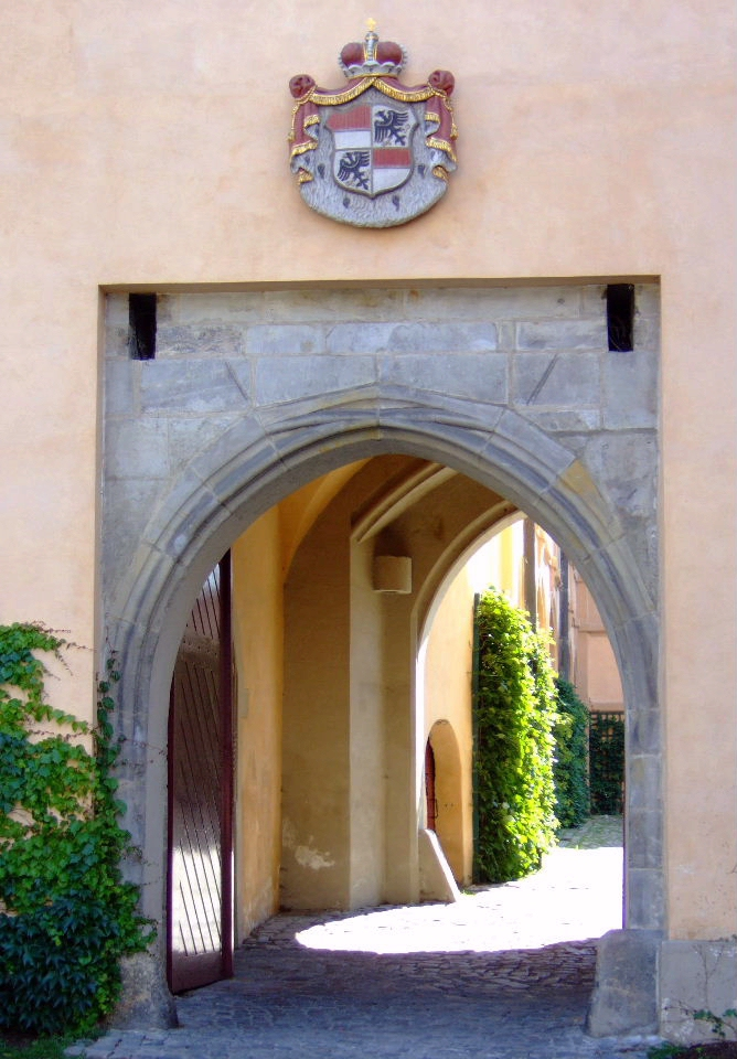 Gate to the courtyard of Mělník Castle with coat of arms of its owner - the Lobkowicz family. Aufnahme: 3. Juli 2006 Url